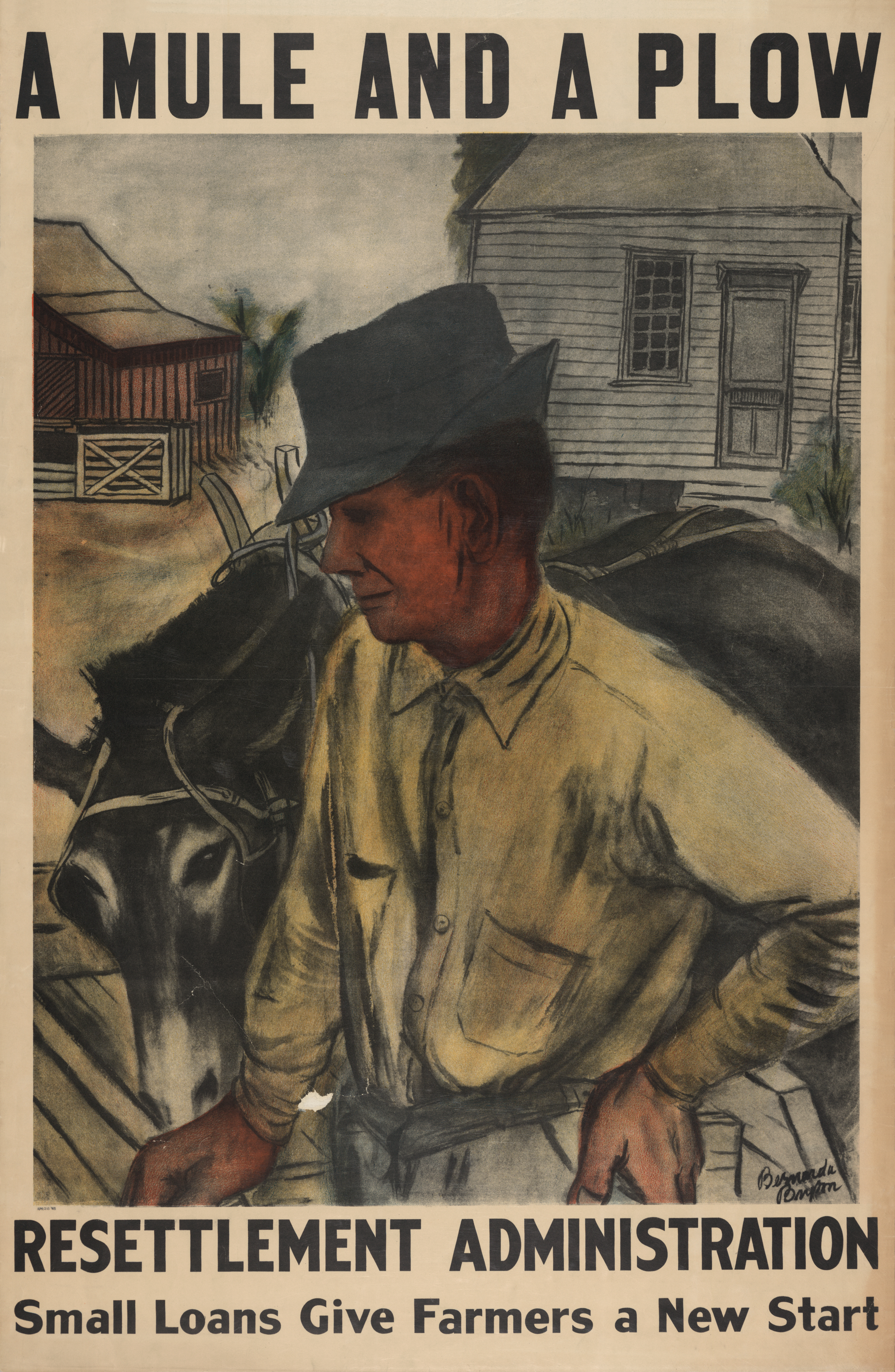 Resettlement Administration poster. TITLE: A mule and a plow--Resettlement Administration--Small loans give farmers a new start / Bernarda Bryson. CALL NUMBER: POS - US .B79, no. 1 (C size) [P&P] REPRODUCTION NUMBER: LC-DIG-ppmsca-05986 (digital file from original print) LC-USZC4-5852 (color film copy transparency) No known restrictions on publication. SUMMARY: Poster shows a man with a mule. MEDIUM: 1 print (poster) : color. Exhibited: "Bernarda Bryson Shahn, Depression Era Prints" at the James A. Michener Art Museum, PA, 2005. SUBJECTS: United States. Resettlement Administration. Farmers--1930-1940. FORMAT: Posters American 1930-1940. Prints Color 1930-1940. REPOSITORY: Library of Congress Prints and Photographs Division Washington, D.C. 20540 USA CARD #: 97520475